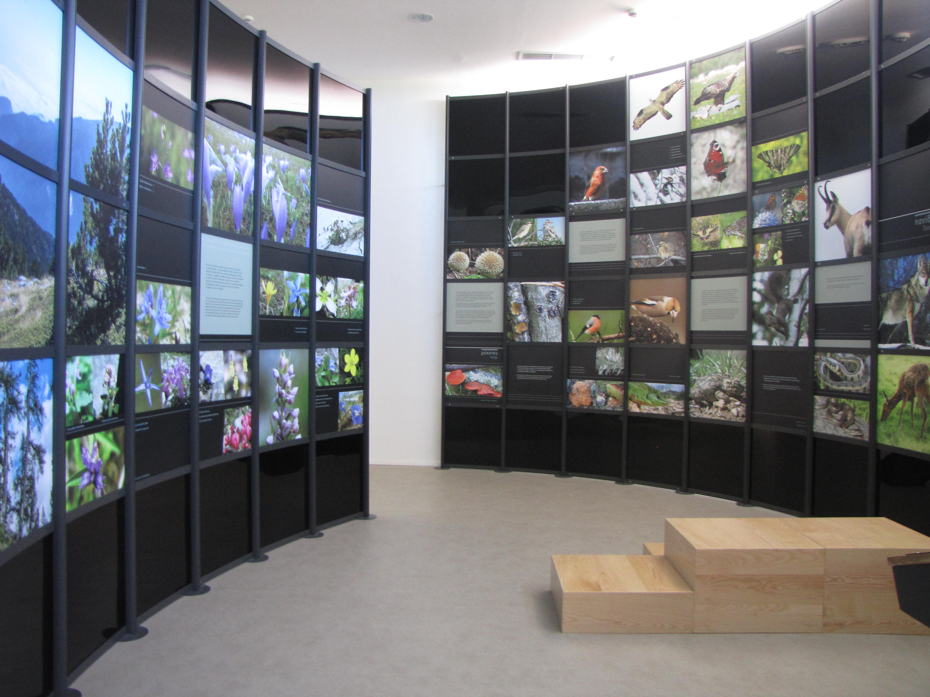 Exhibition Olympus-Nationalpark-Information-Center 1. Floor